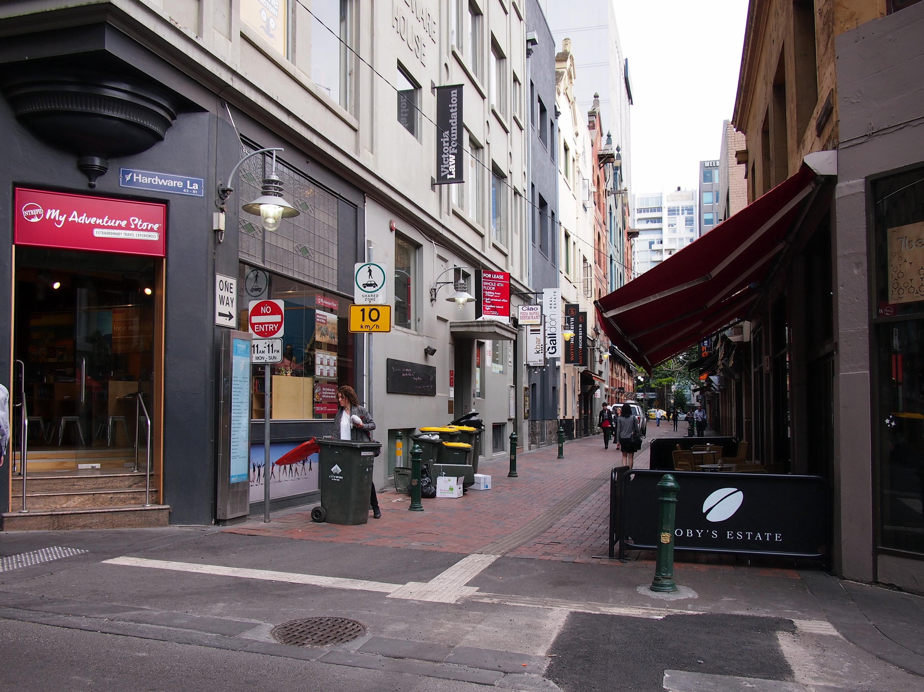 Looking north along Hardware Land from its intersection with Little Burke Street